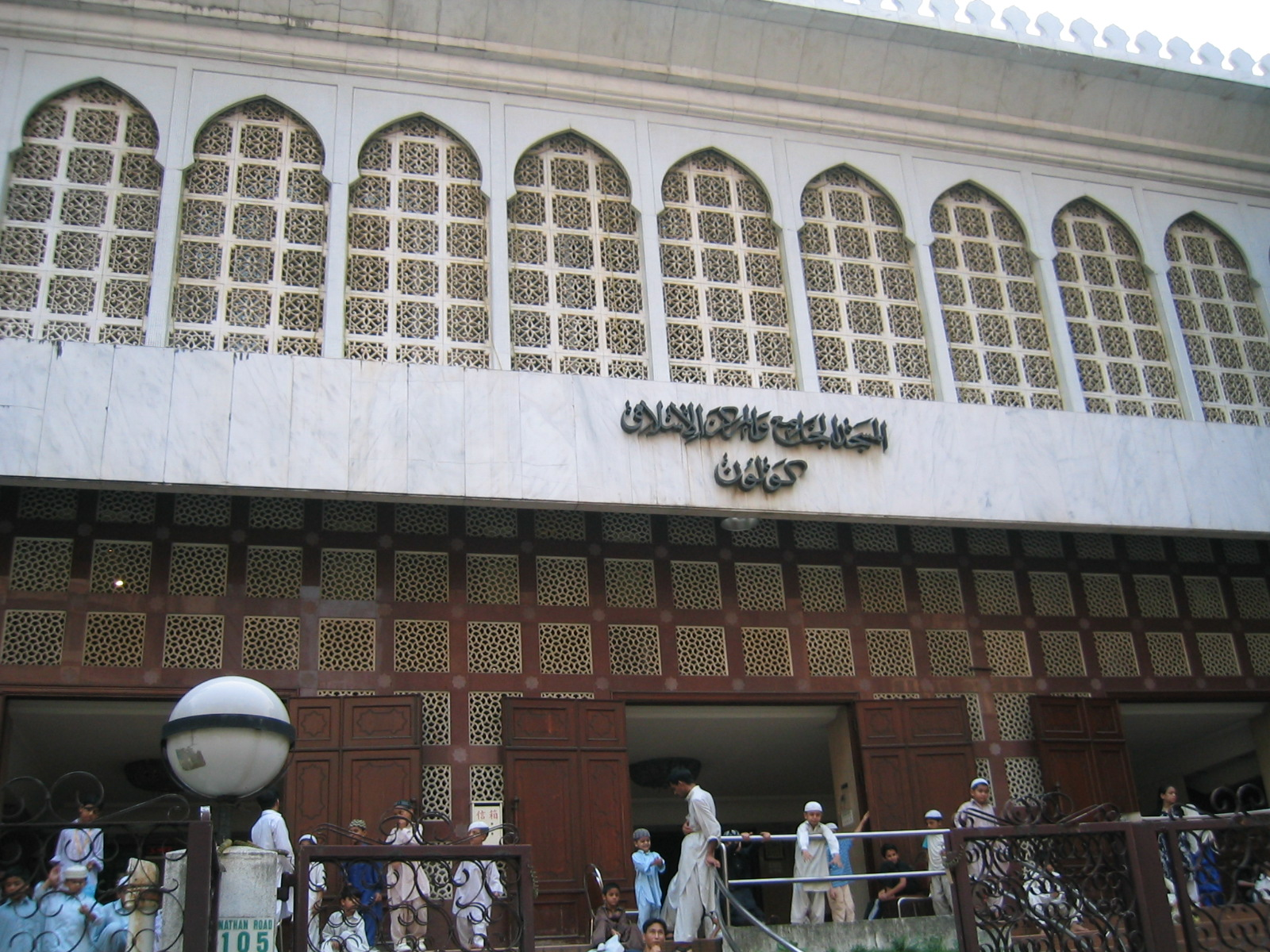 The Kowloon Masjid and Islamic Centre at Tsim Sha Tsui, Hong Kong